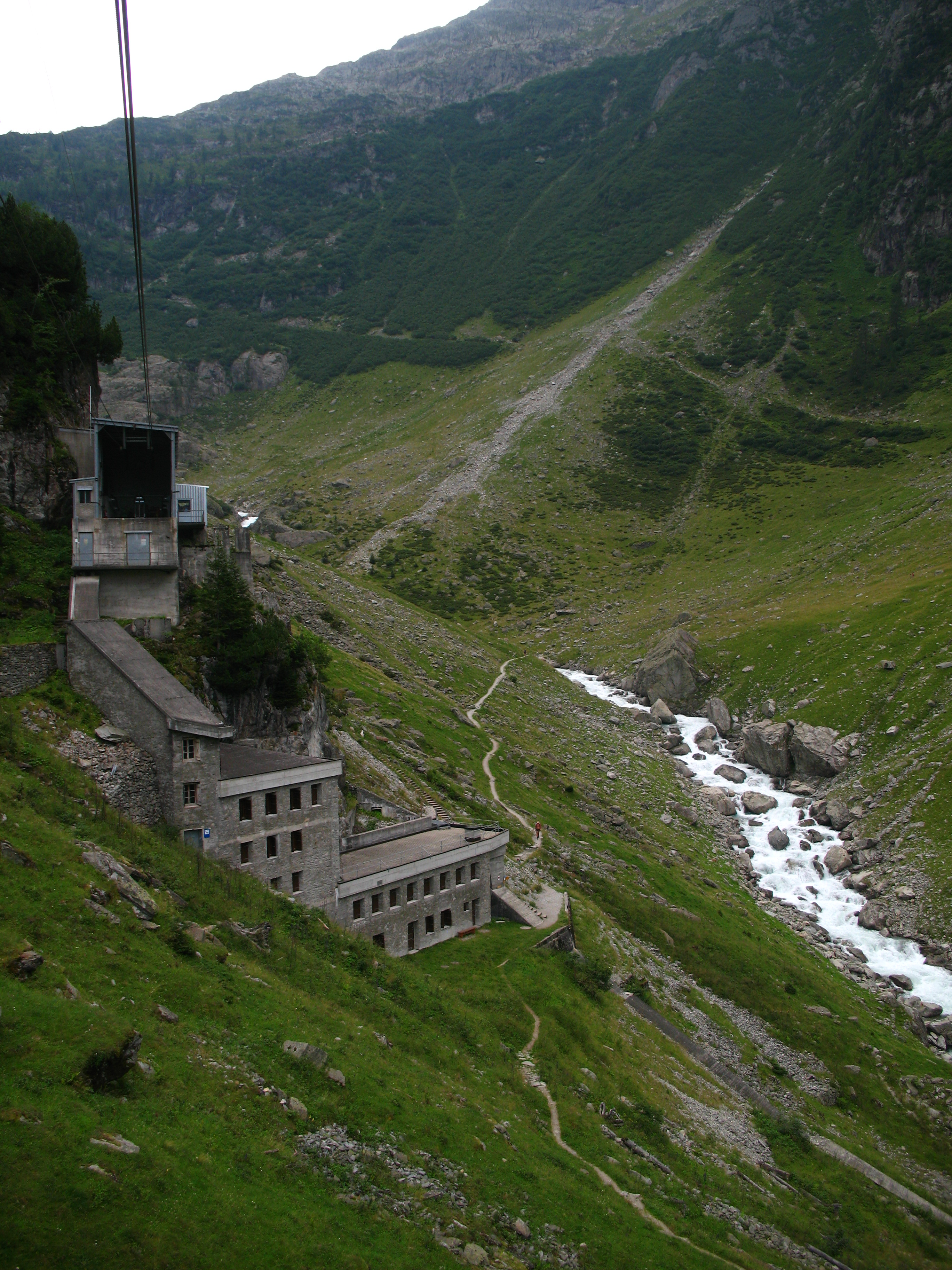 View from the Trift cable car, Gadmen, Switzerland